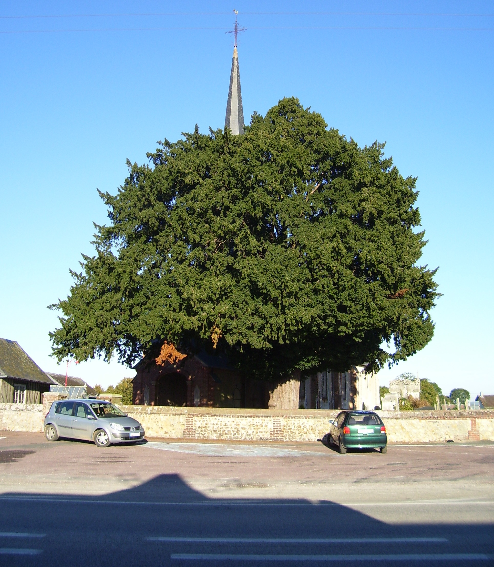 The yew tree at the church Saint-Martin in Bazoques is classified as "Site naturel classé" (one of the French heritage protection labels). Bazoques is a commune in France.